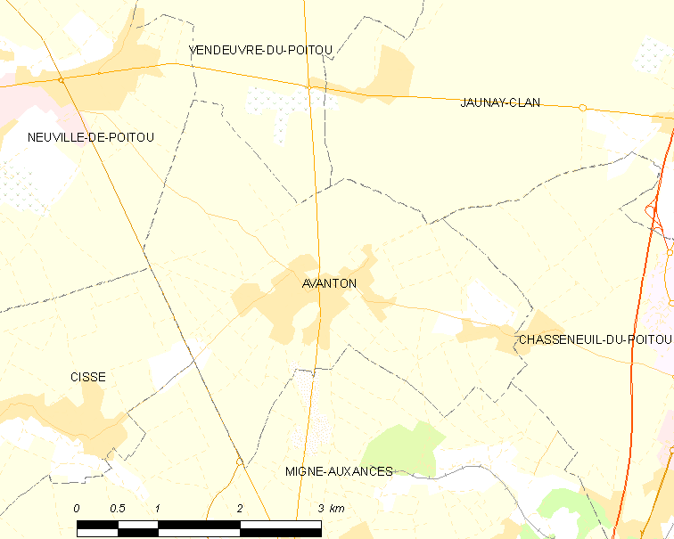 Map of French municipality Avanton